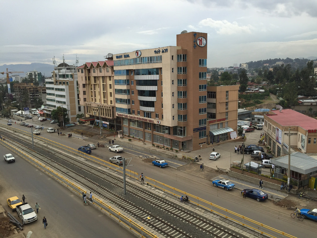 Addis Ababa light rail street view (Haile Gebreselassie Avenue), taken from the Capital Hotel and Spa.